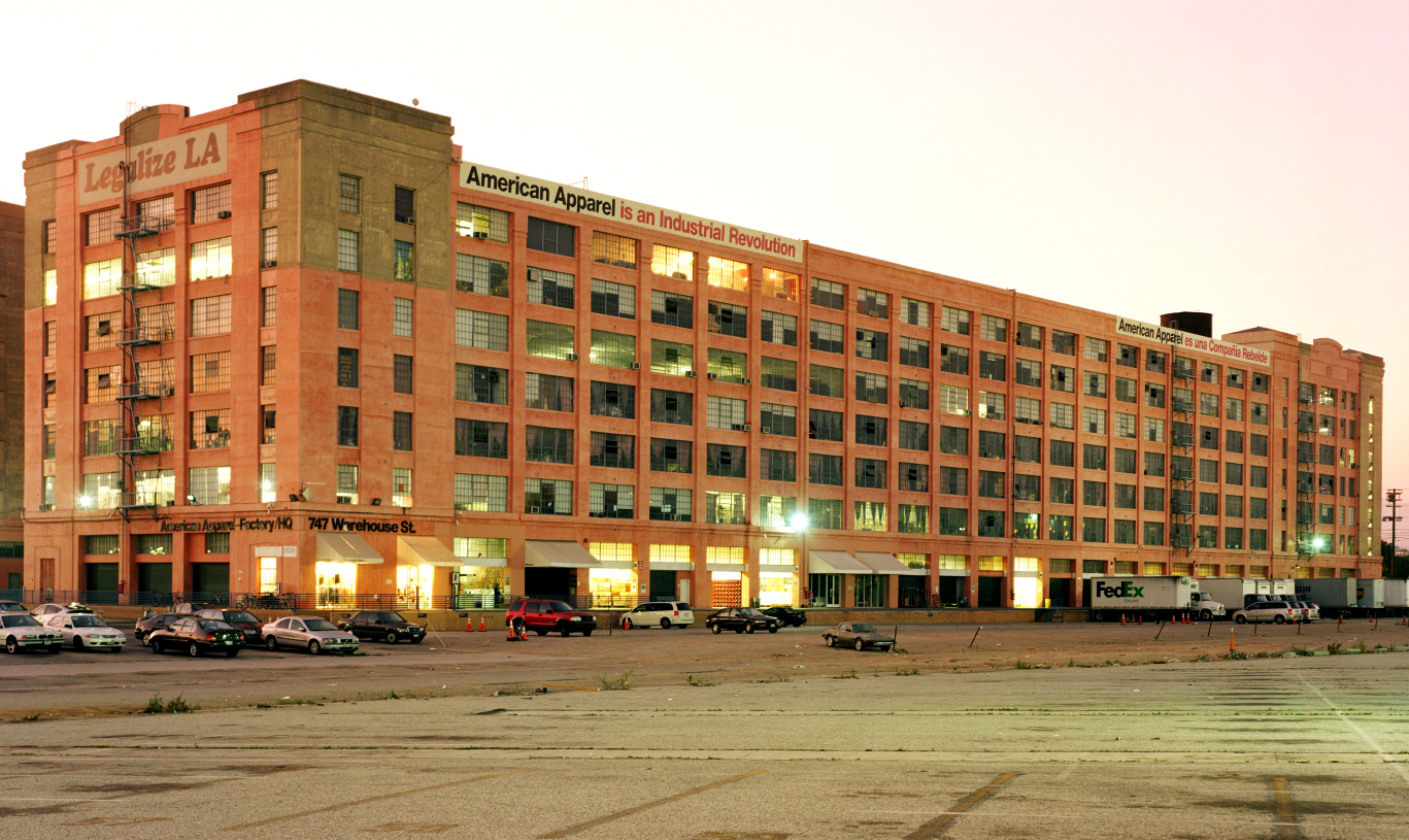 Photo of American Apparel factory